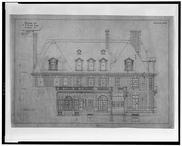 Drawing designs for the Thomas T. Gaff House in Washington, D.C. The building is now used as the Colombian ambassador's residence.